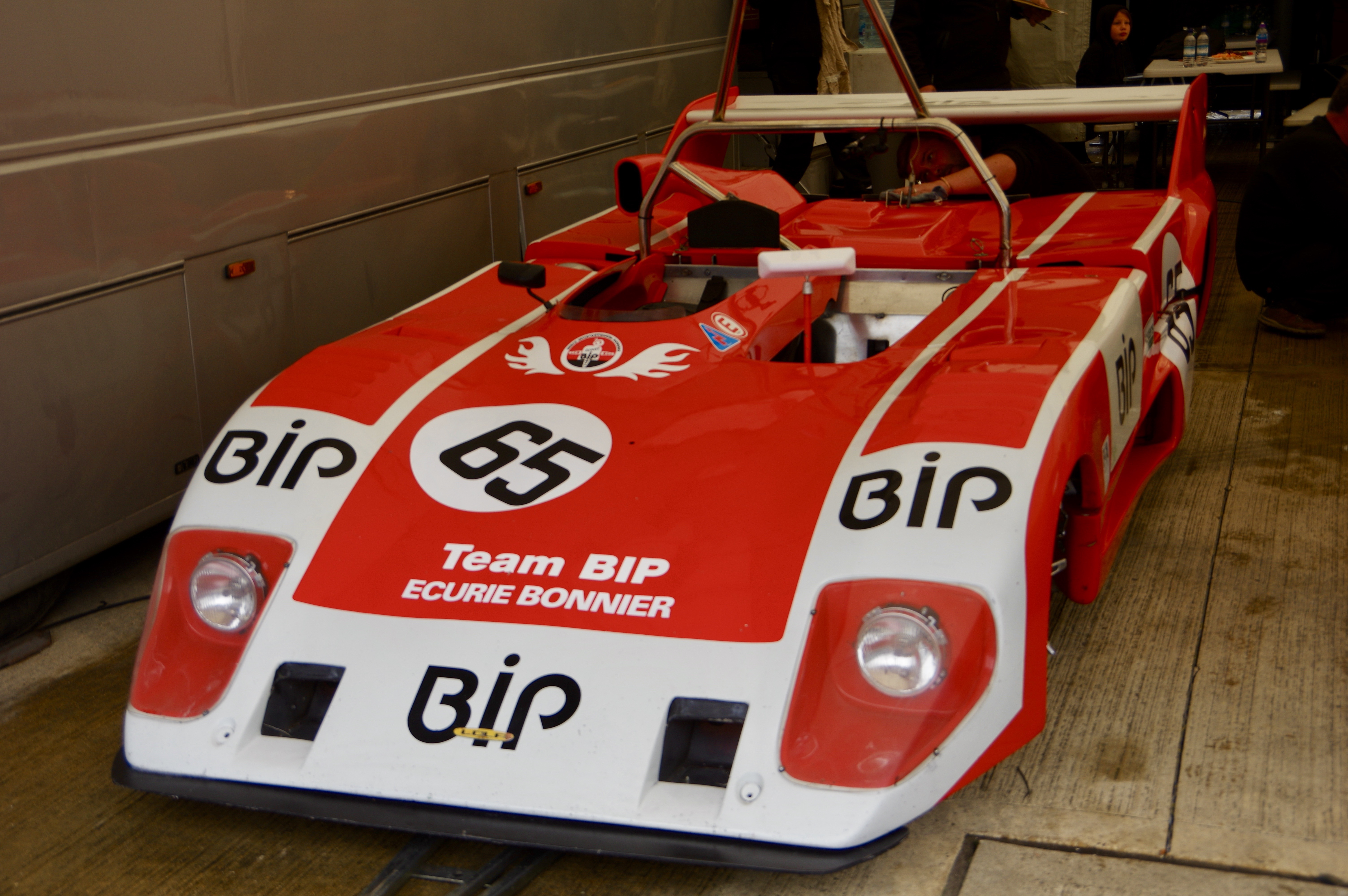 1972 Lola Cosworth T280 on Silverstone Classic 2017